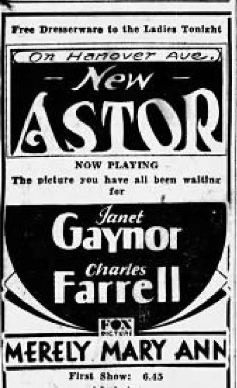 Astor Theater advertisement for the American film Merely Mary Ann (1931) - 23 Nov. 1931 Morning Call, Allentown PA